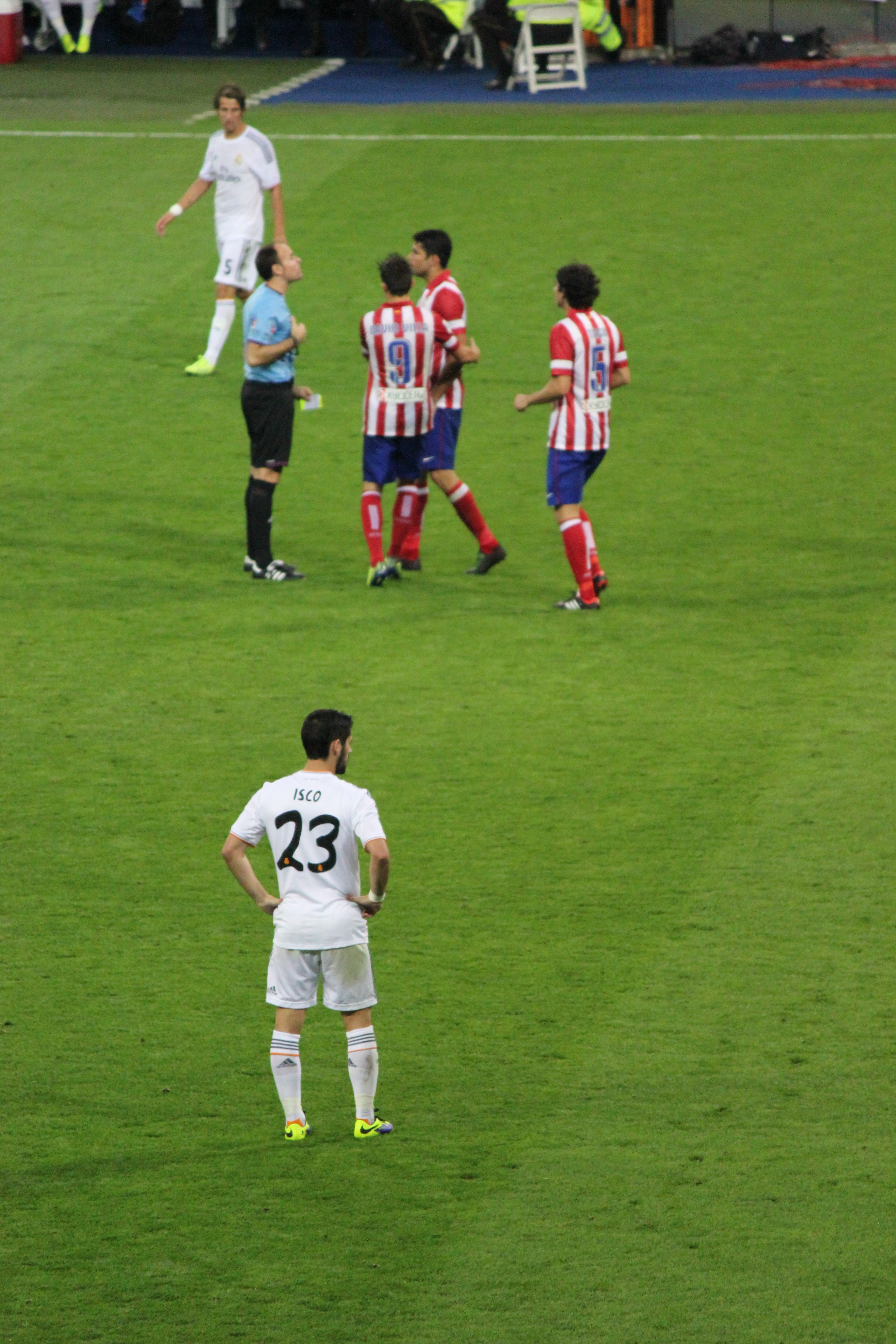 Isco playing for Real Madrid against Atlético Madrid on 28 September 2012 at a home game for Real Madrid.